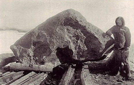 Robert Peary & Ahnighito Meteorite, 1897